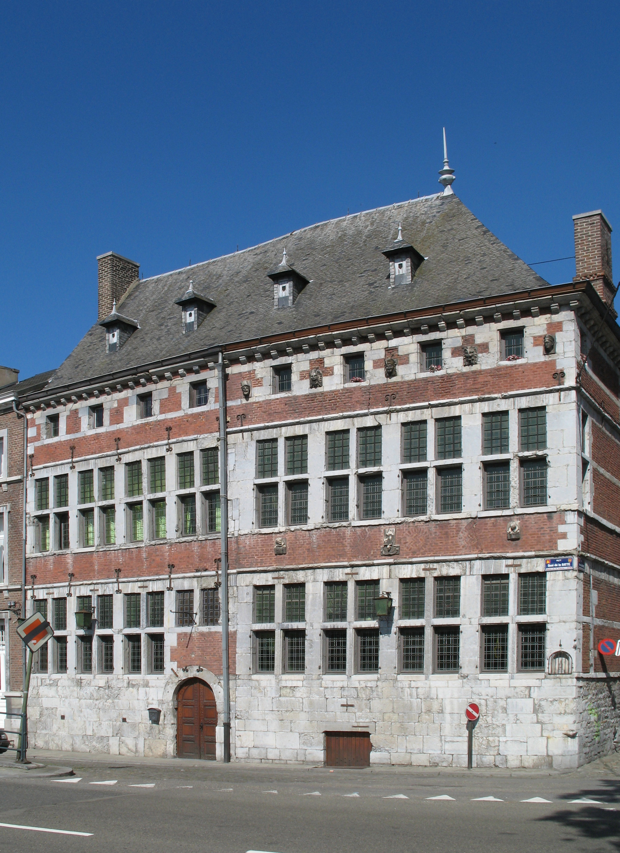 Huy (Belgium), Hôtel de la Cloche on the Quai de la Batte